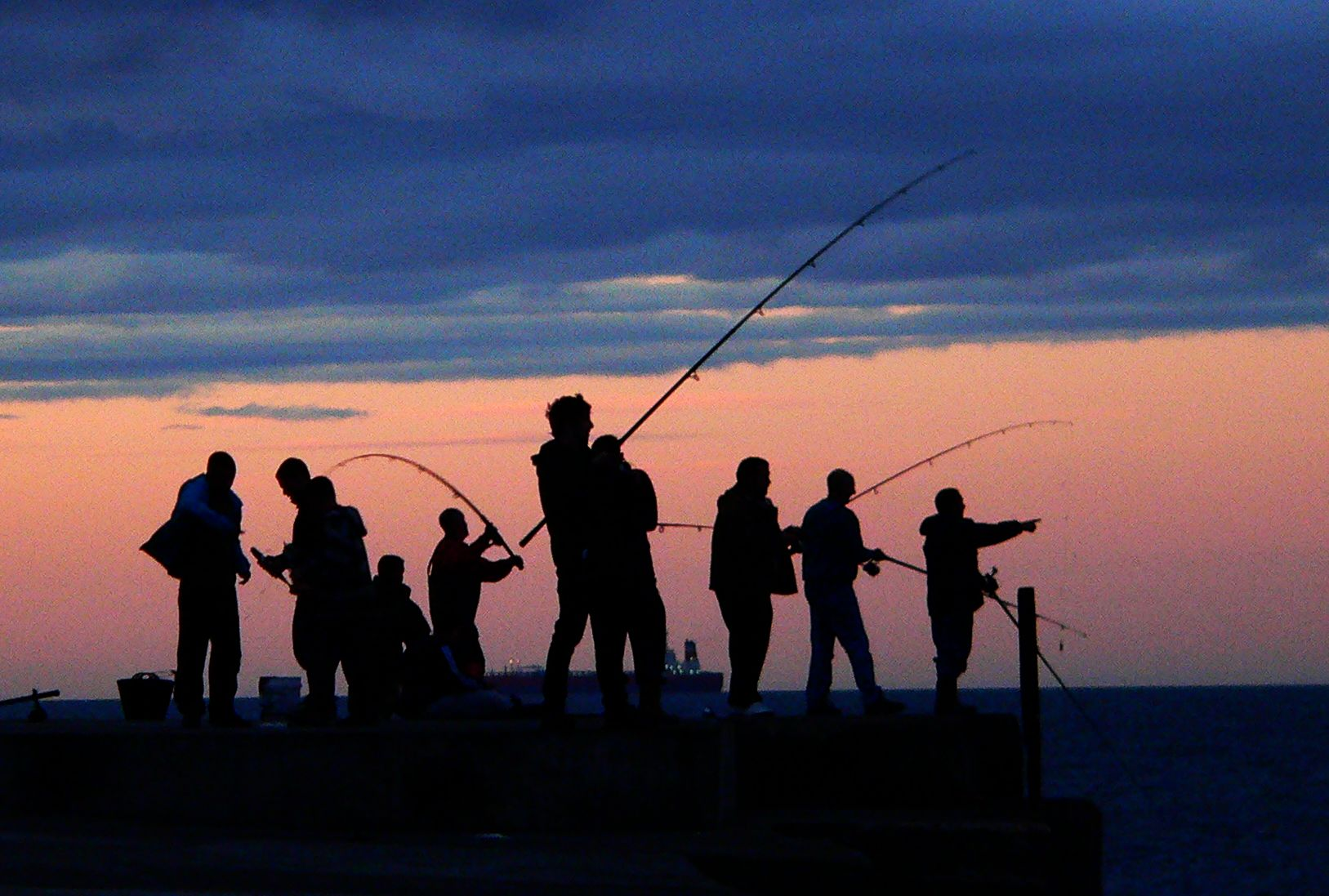 Fishermen enjoy an evening's fishing at South Gare breakwater,Redcar, England.